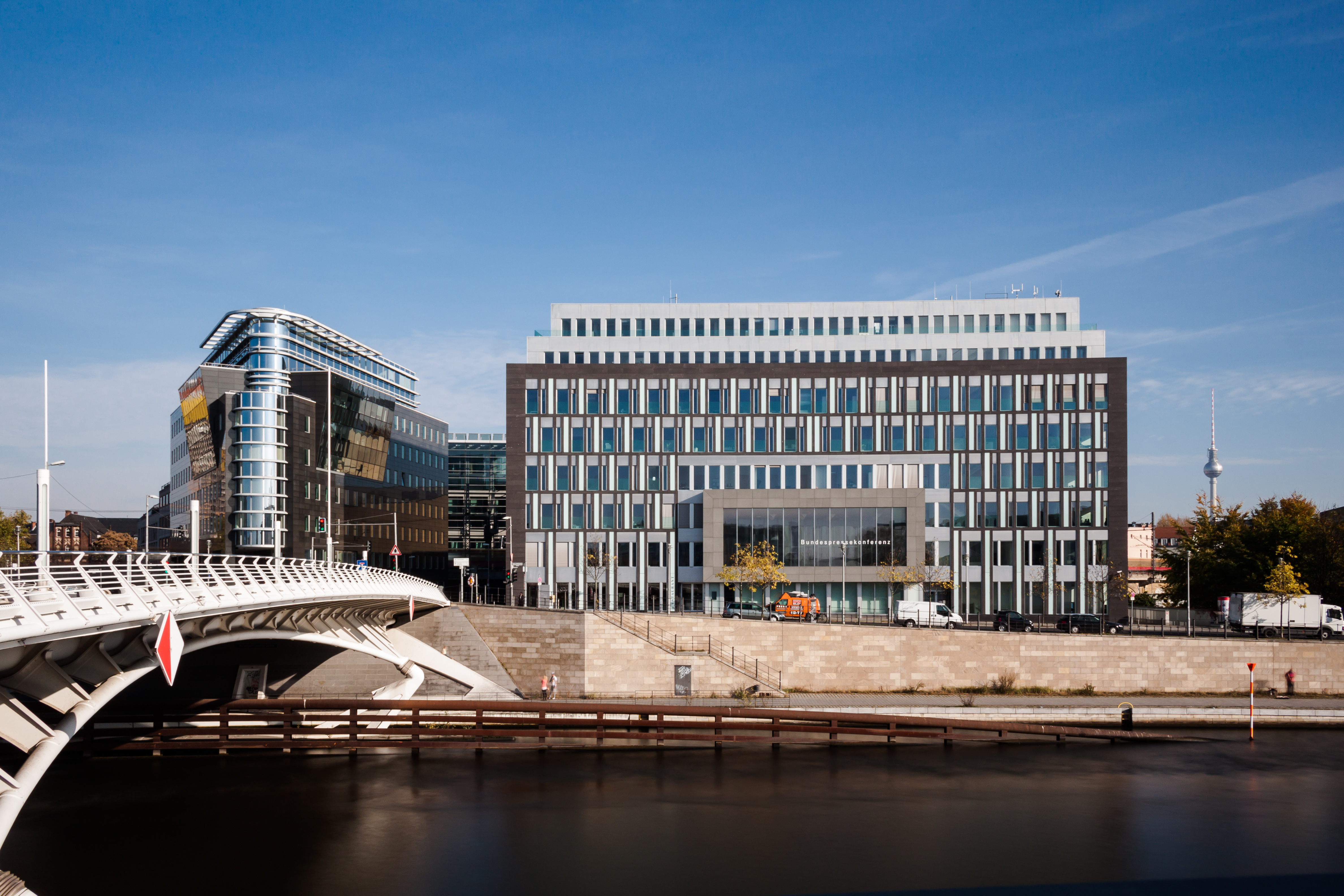 At the right the building of the German federal press conference. It was built by the architects Nalbach + Nalbach. At the left the office building Reinhardtstraße 56-58, which was built by TBP Triet Brown Tietjen Schmittmann 2004.